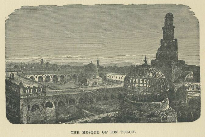 Drawing of the Mosque of Ibn Tulun